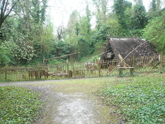 The Bodger's Hut at Amberley Working Museum. A Bodger is not, contrary to widespread belief, someone who does any odd job badly but a skilled craftsman who creates table and chair legs Bodger